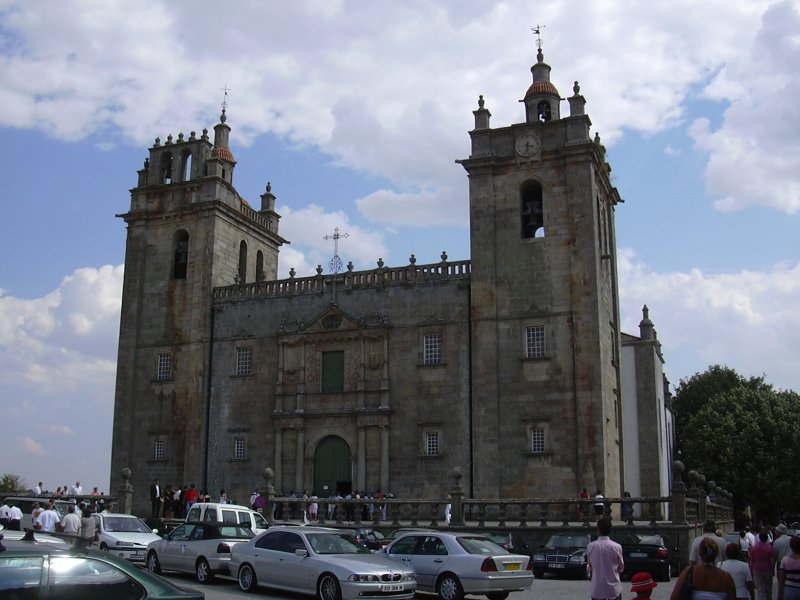 Cathedral outside in Miranda do Douro (Portugal) .